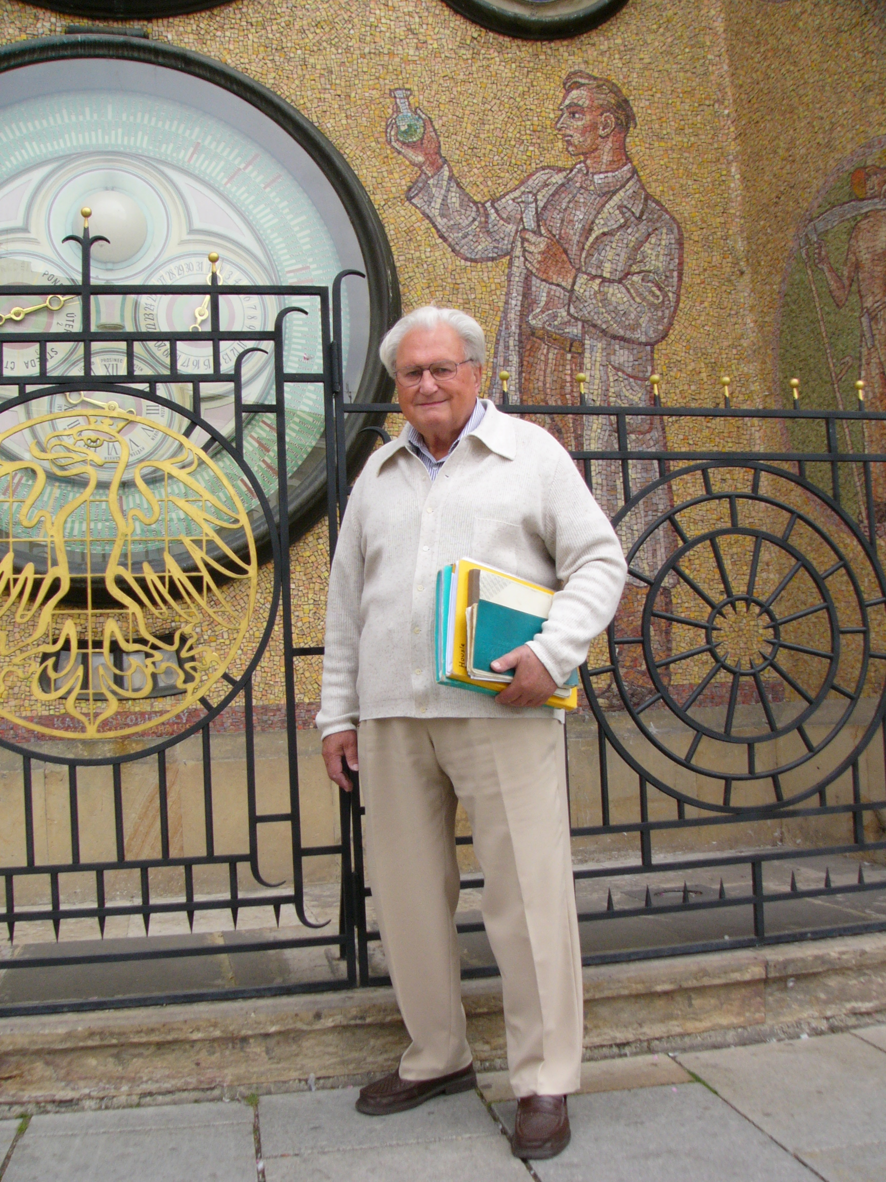 Český varhaník Antonín Schindler (1925-2010).